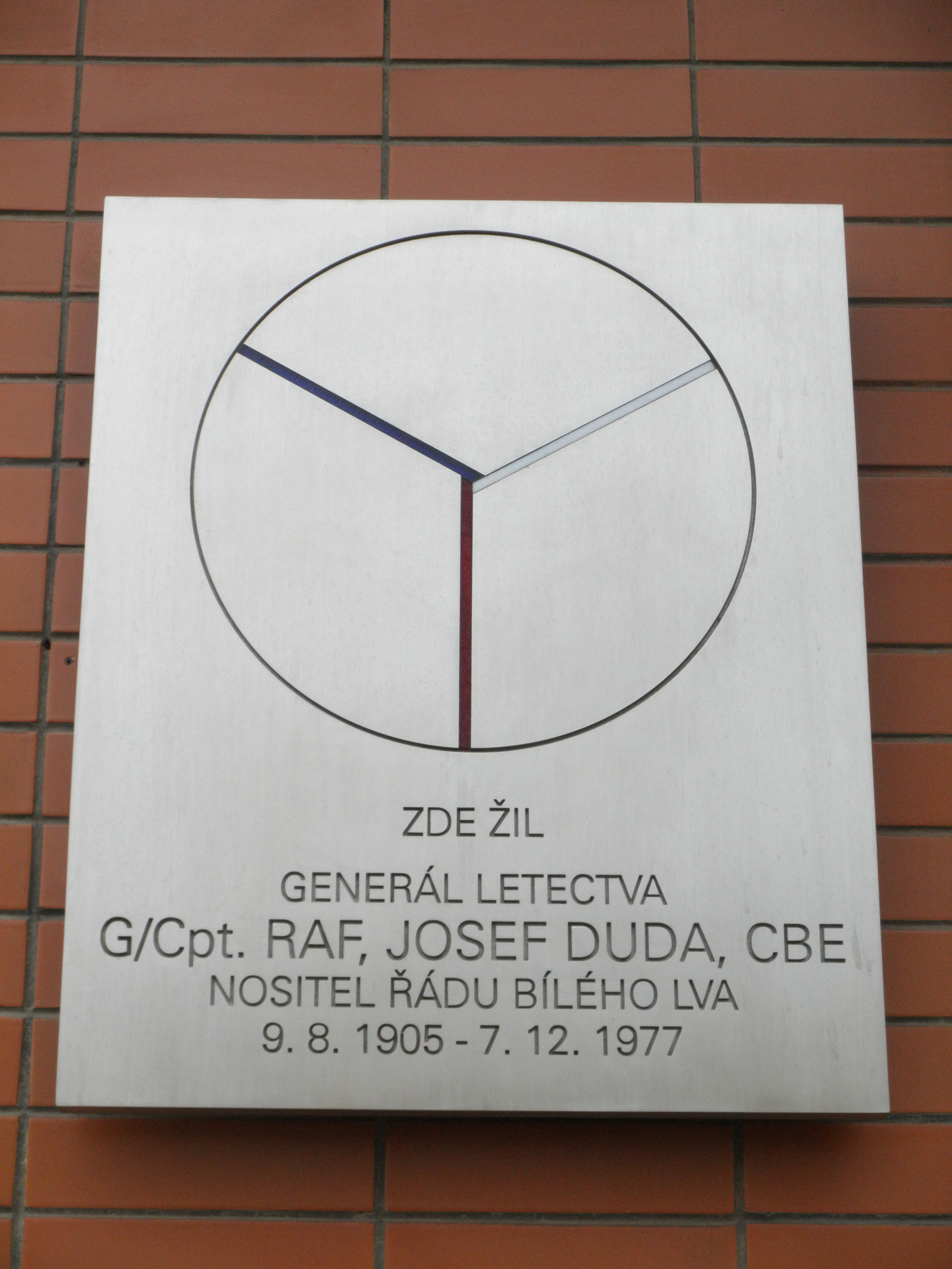 Memorial plaque of Czech aviator Josef Duda at his house at 6 Sádky street in Prostějov. The plaque was made by Pavla Kačírková.